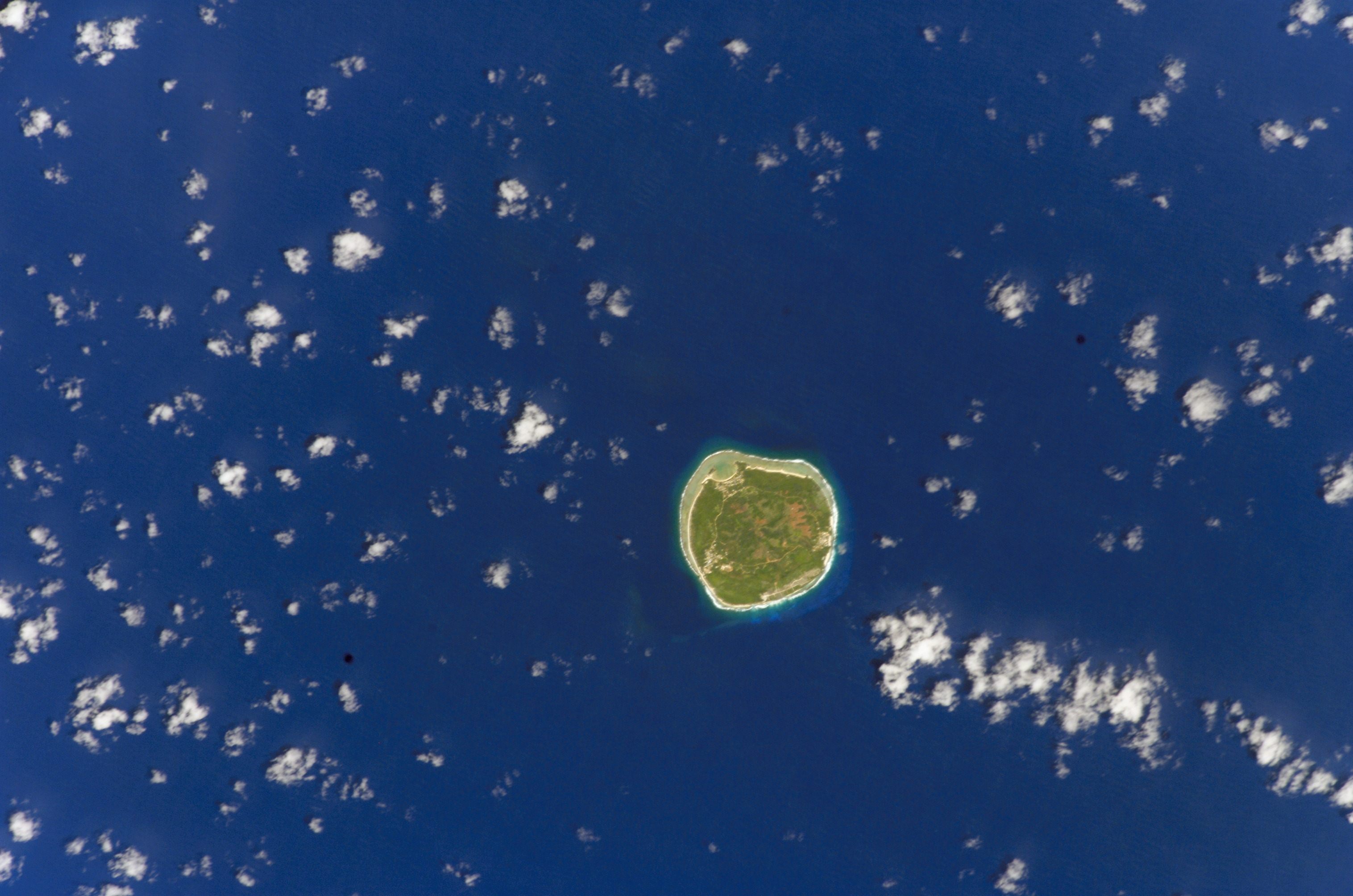 NASA astronaut image of Rimatara, Austral Islands, French Polynesia